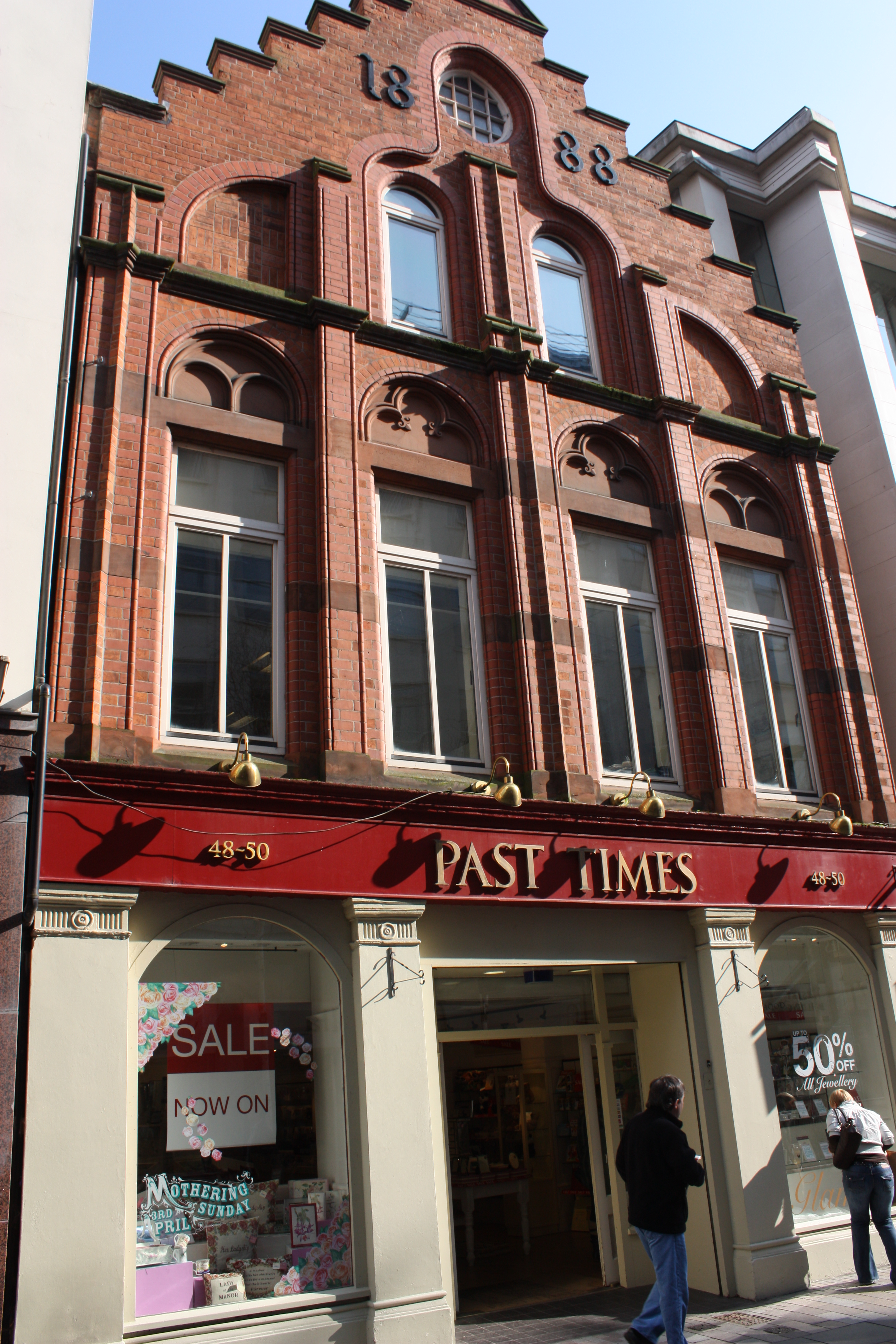 Past Times, 48-50 Fountain Street, Belfast, Northern Ireland, March 2011